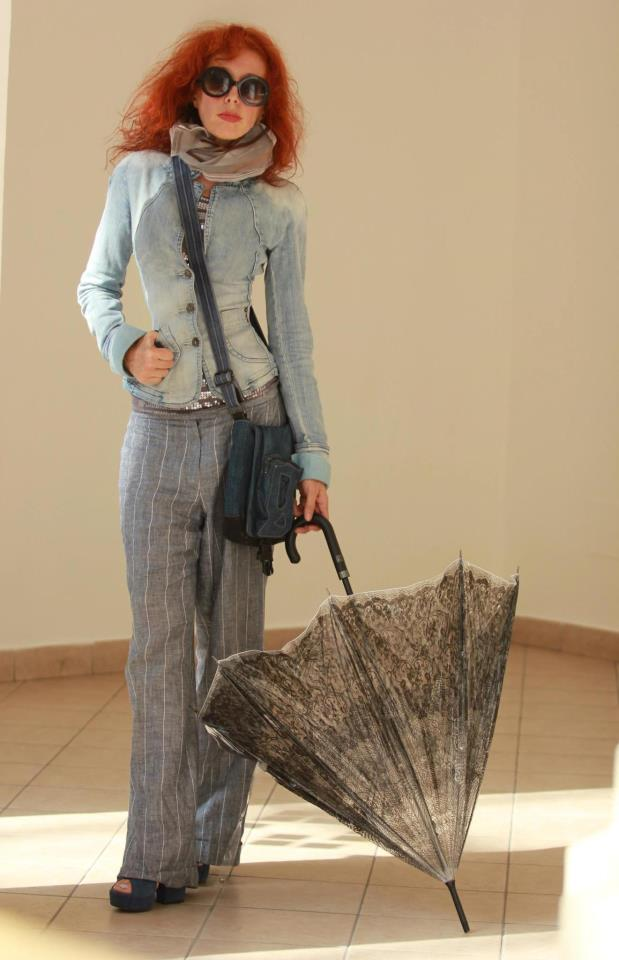 Lena Hades poses after she got slim, 2013.